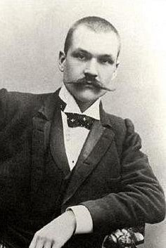 Akseli Gallen-Kallela (1865—1931), a finish painter (crop)